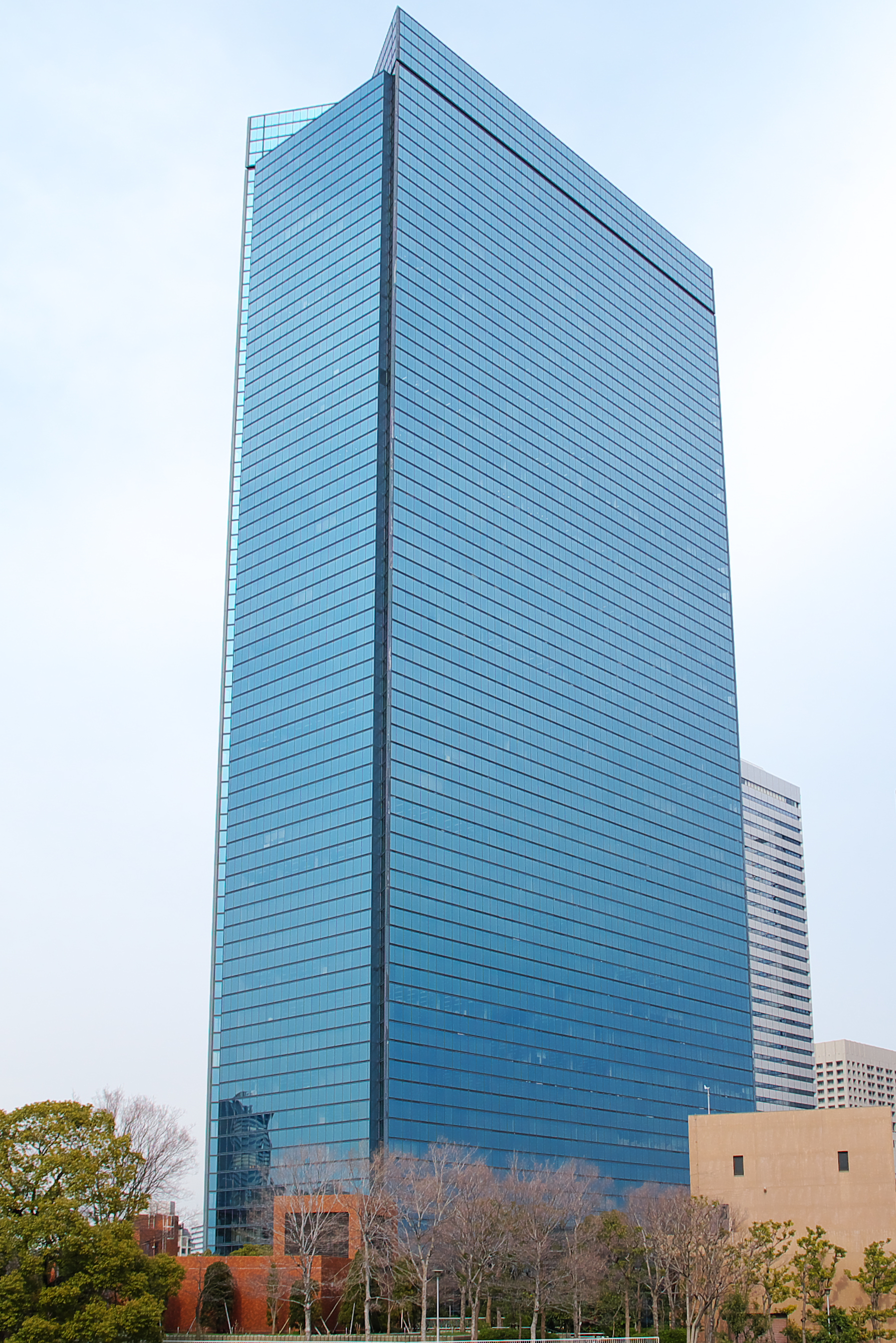 Photograph of Crystal Tower, a part of skyscrapers in Osaka Business Park, Chuo-ku, Osaka, Osaka Prefecture, Japan.